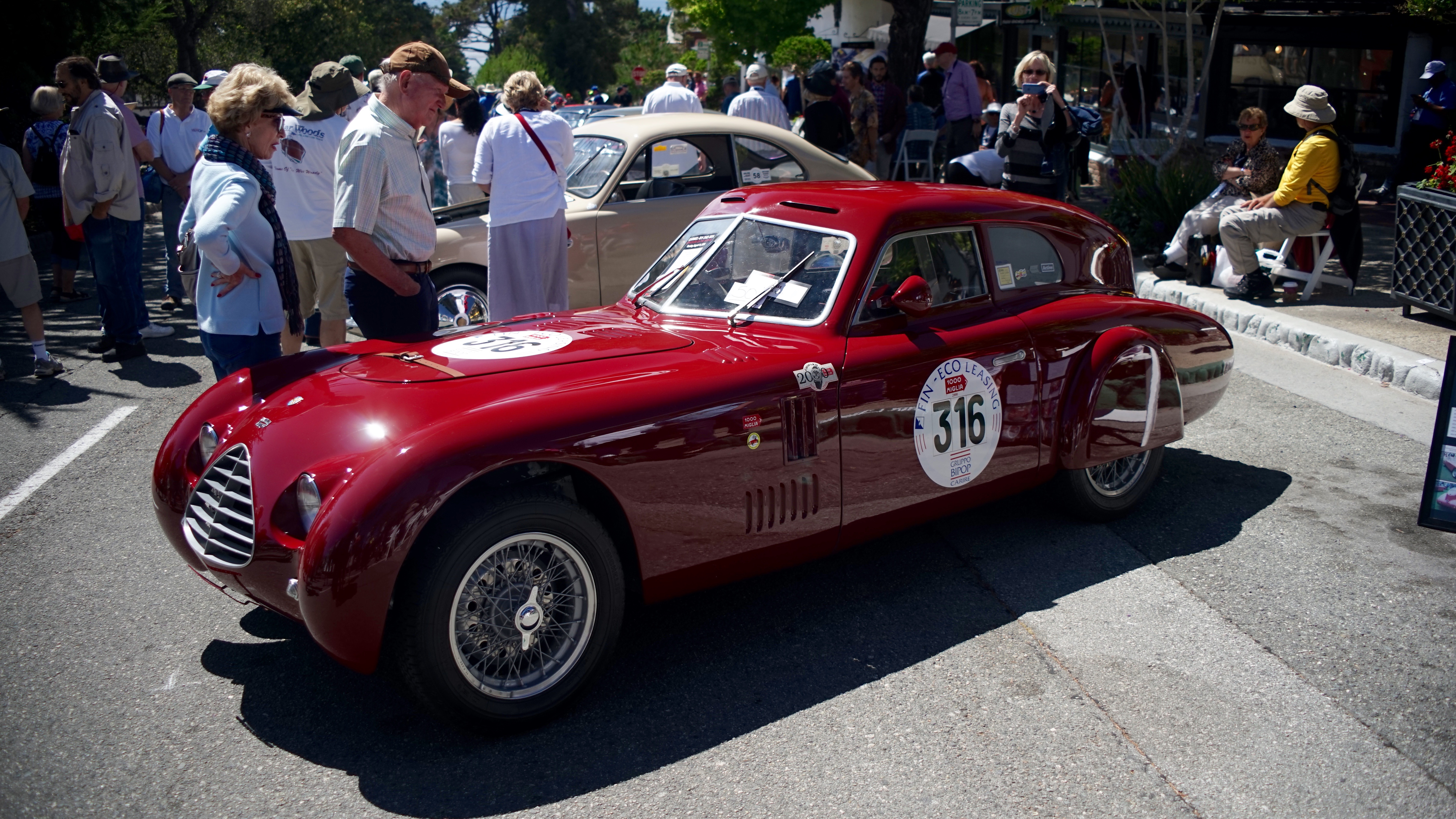 1947 Cisitalia 202 MM "Cassone", special aerodynamic berlinetta bodywork by Rocco Motto. With Bernabei/Pacini it finished third overall at the 1947 Mille Miglia.